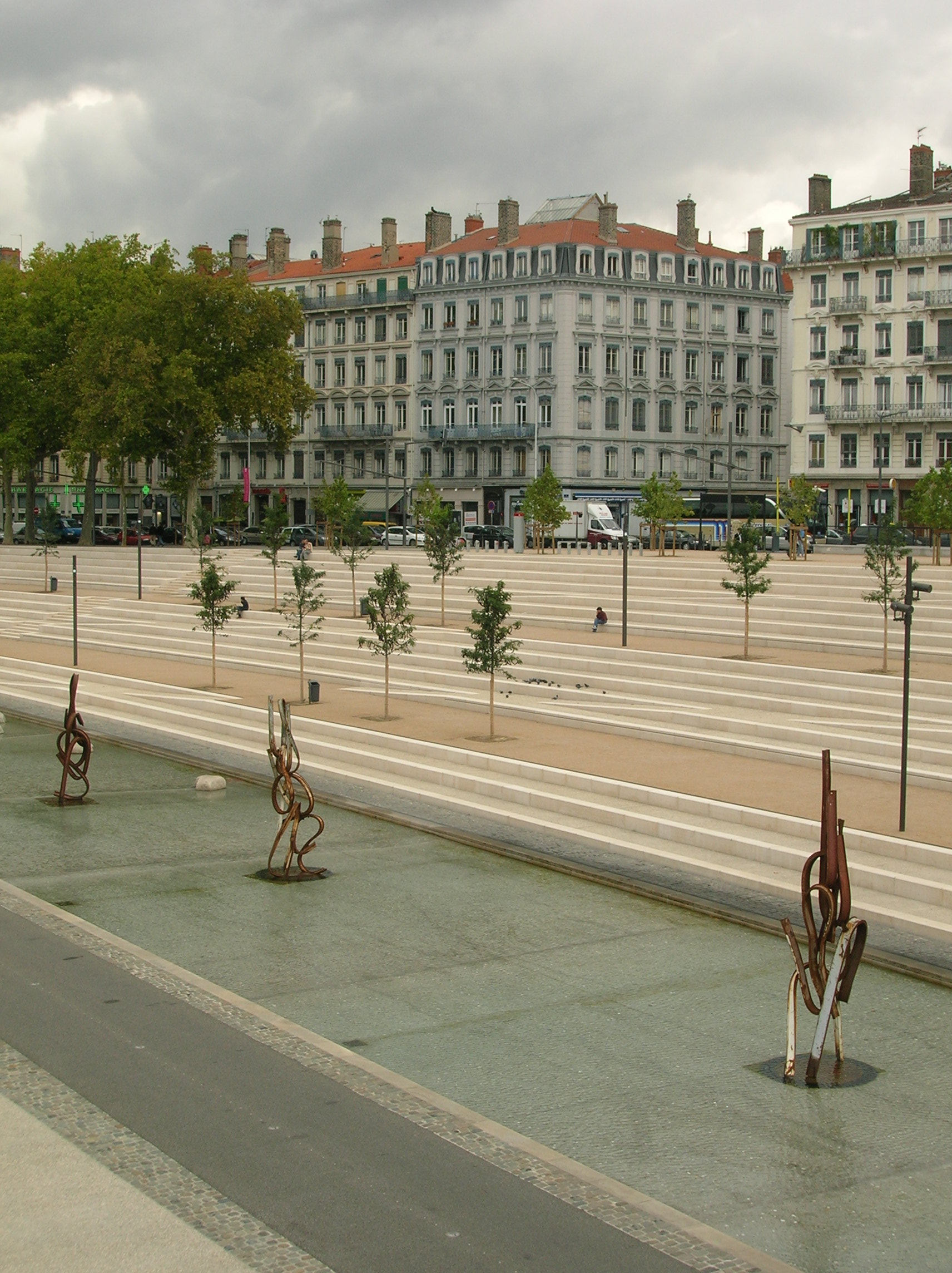 "Rives sur Berges" outdoor exhibition in September-October 2007 on Rhone River banks of Lyon, during the Rugby World Cup. Sculptures by former rugby player Jean-Pierre Rives.